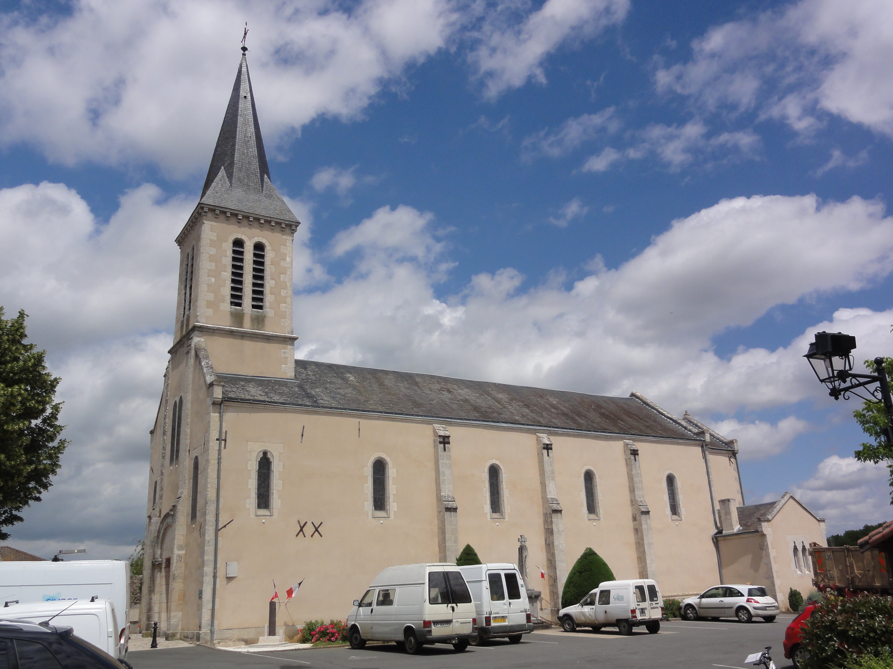 La Chapelle-Montreuil (Vienne) église